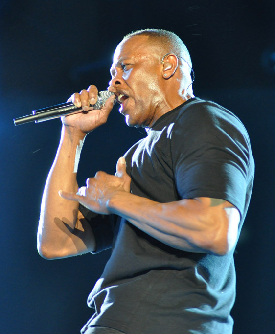 Andre Romelle Young, stage name Dr. Dre, performong at Coachella, 2012. Cropped version. The original version.is here: File:Dr. Dre at Coachella 2012.jpg